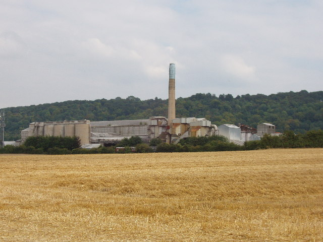 Chinnor Cement Works, Oxfordshire (since demolished)